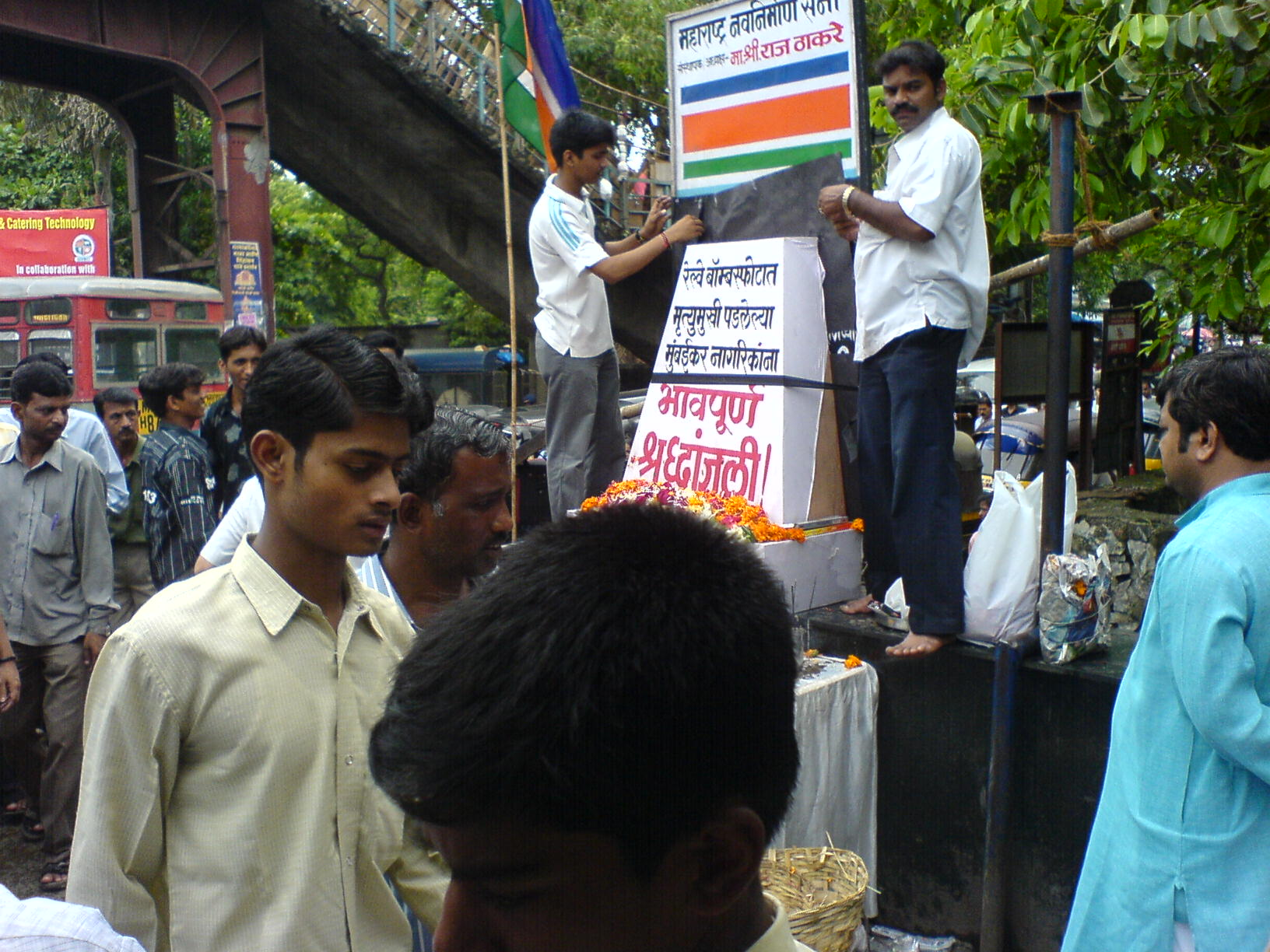 This temporary memorial was erected by Maharashtra Navnirman Sena outside Borivali station (east)